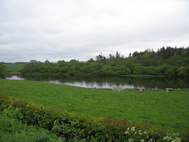 Fishing platforms at Snipe Loch. A view looking east from the B742 towards some fishing platforms at Snipe Loch.